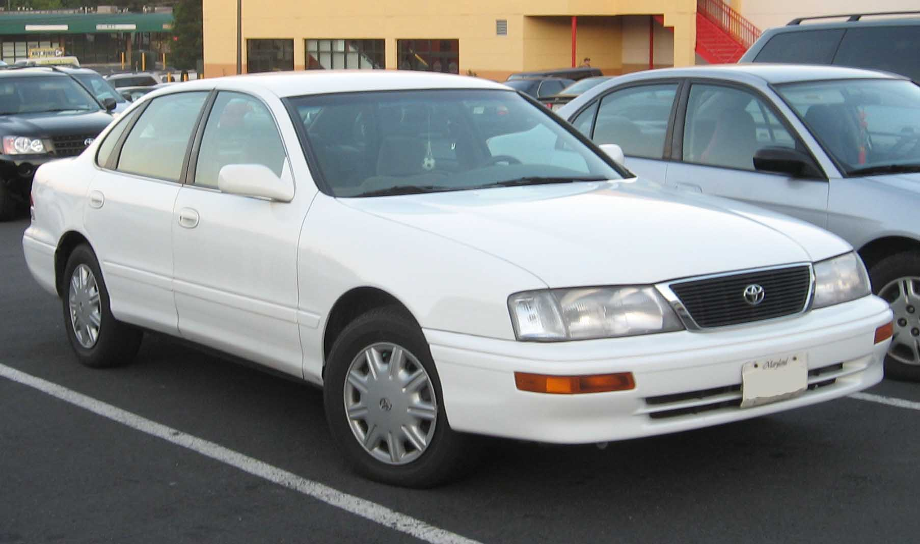 1995-1997 Toyota Avalon photographed in USA.